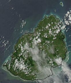 Satellite image of Mauritius in February 2003.